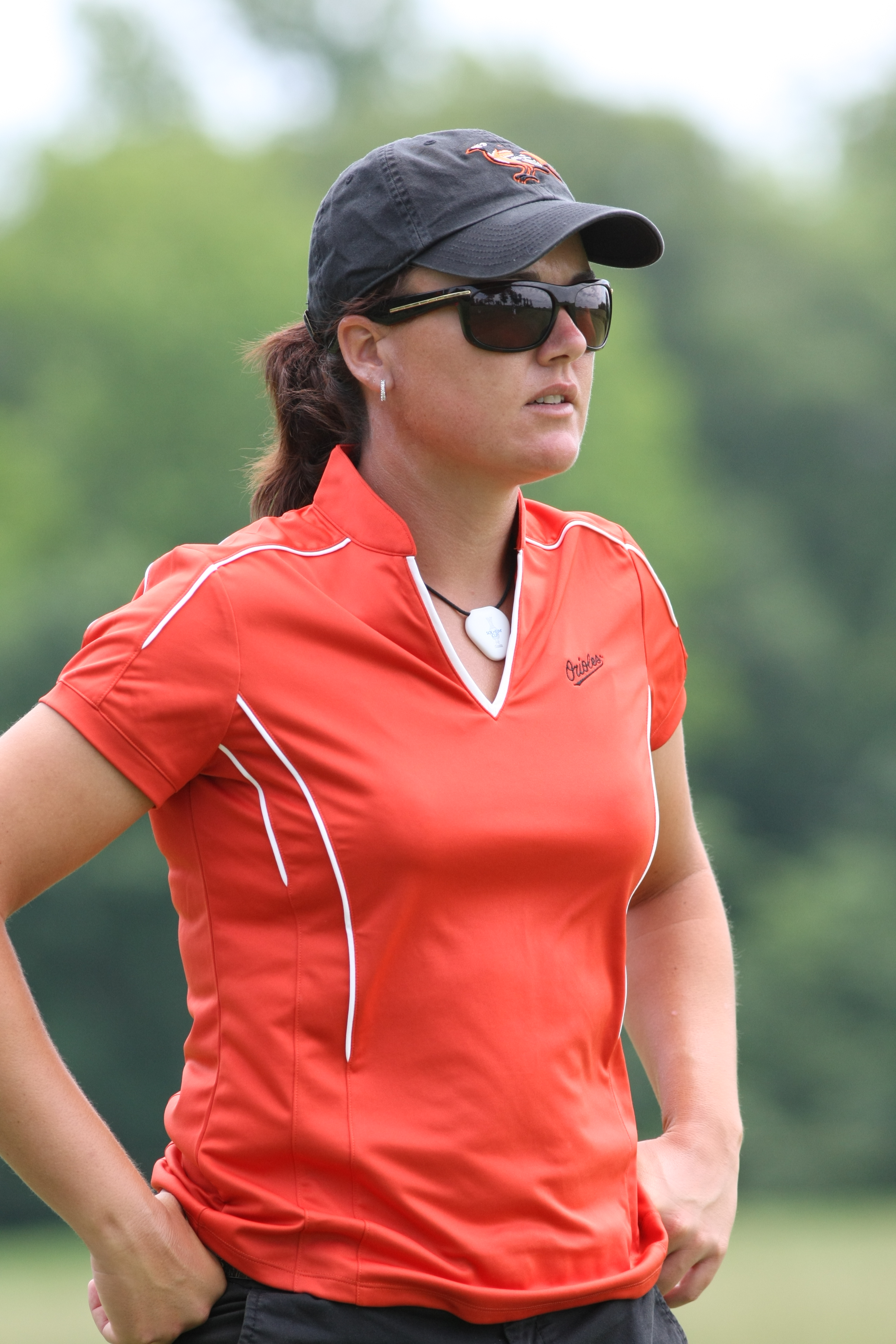 Sophie Gustafson (SWE) during pro-am before 2008 LPGA Championship.